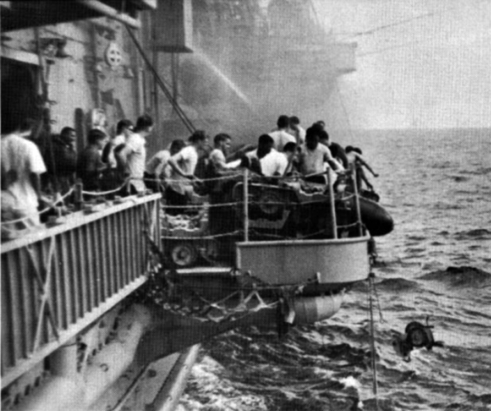 U.S. Navy sailors jettisoning a bomb over the side of the aircraft carrier USS Oriskany (CVA-34) off Vietnam on 26 October 1966. After a sailor accidentally ignited a flare in the forward hangar bay a fire erupted that killed 44 men.